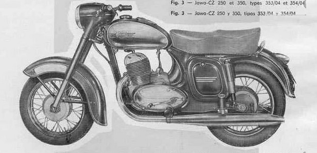 Picture with design elements of Jawa 250 - 353/04 and Jawa 350 -354/04 motorcycles